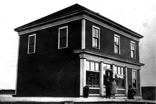 Postcard showing three people standing in front of store, ca. 1930’s. Provincial Archives of New Brunswick number P1-84-2.